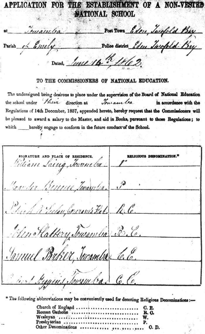 Signed application to establish a school at Towamba, NSW, Australia in 1862.